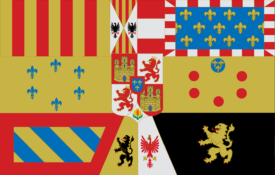 Banner of arms of the Spanish Monarch (1761-1868 / 1875-1931) FOTW Royal Standard of Spain (1761-1868 / 1875-1931)